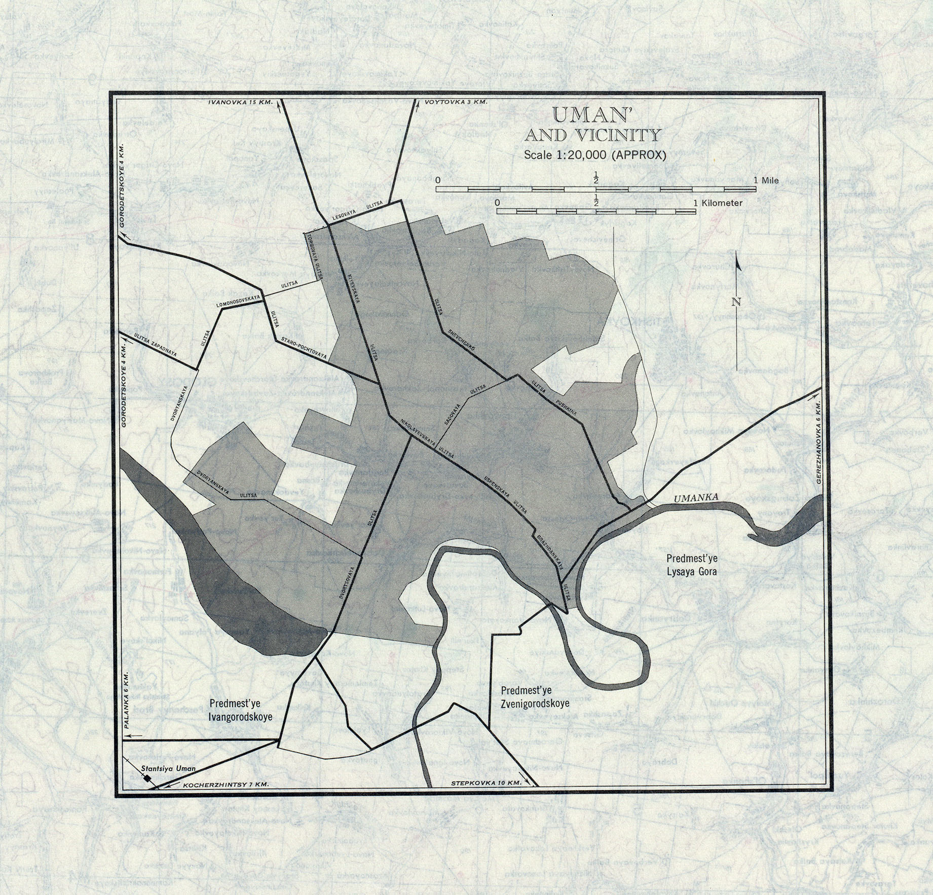 List from Eastern Europe AMS Topographic Maps. Series N501, U.S. Army Map Service, 1954